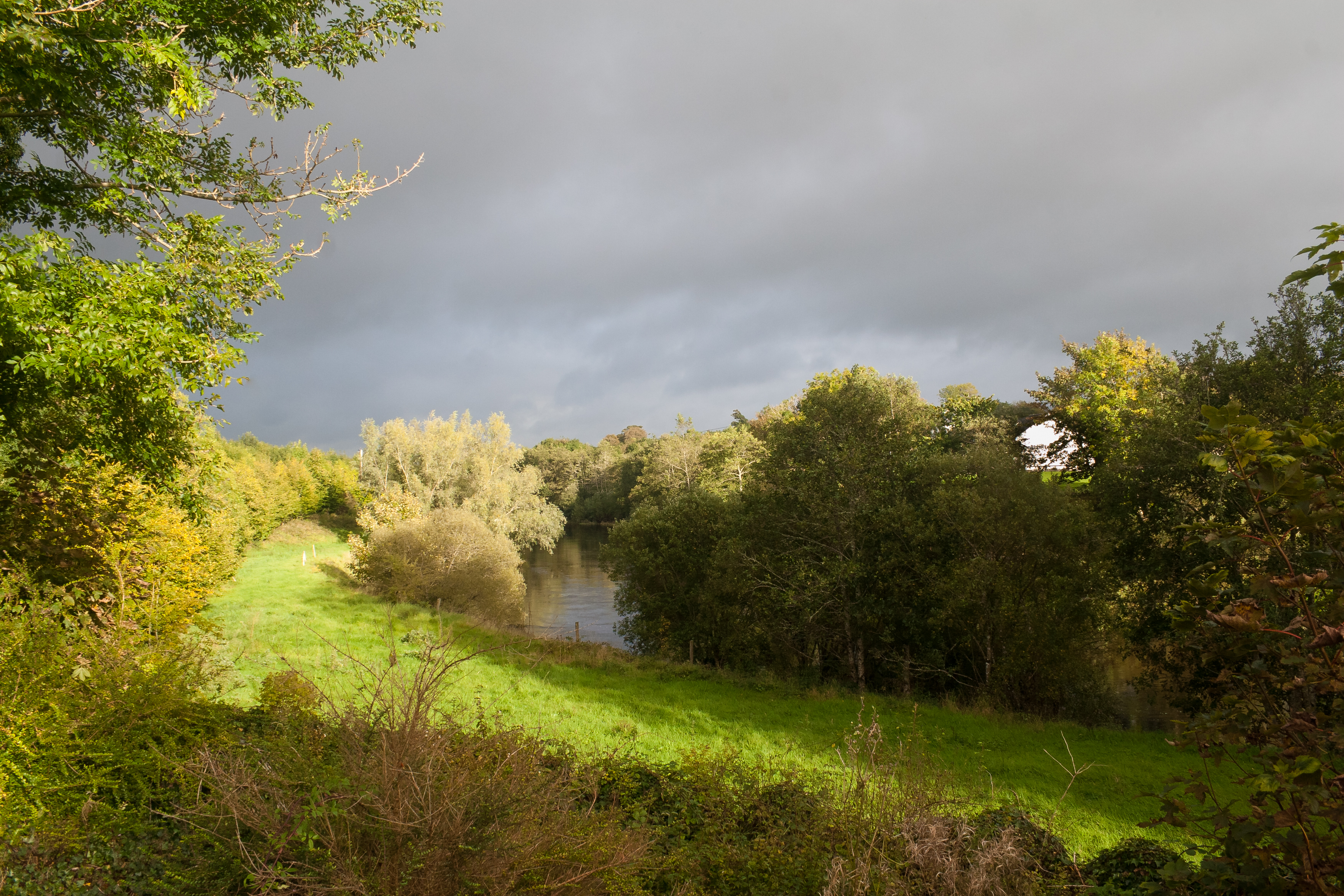 Sunny spell of the evening sun on River Moy at Banada Priory. This photograph has been taken from the position of the former east window of the choir.